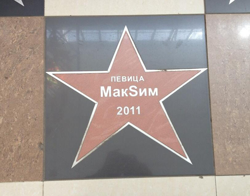 Star Maksim